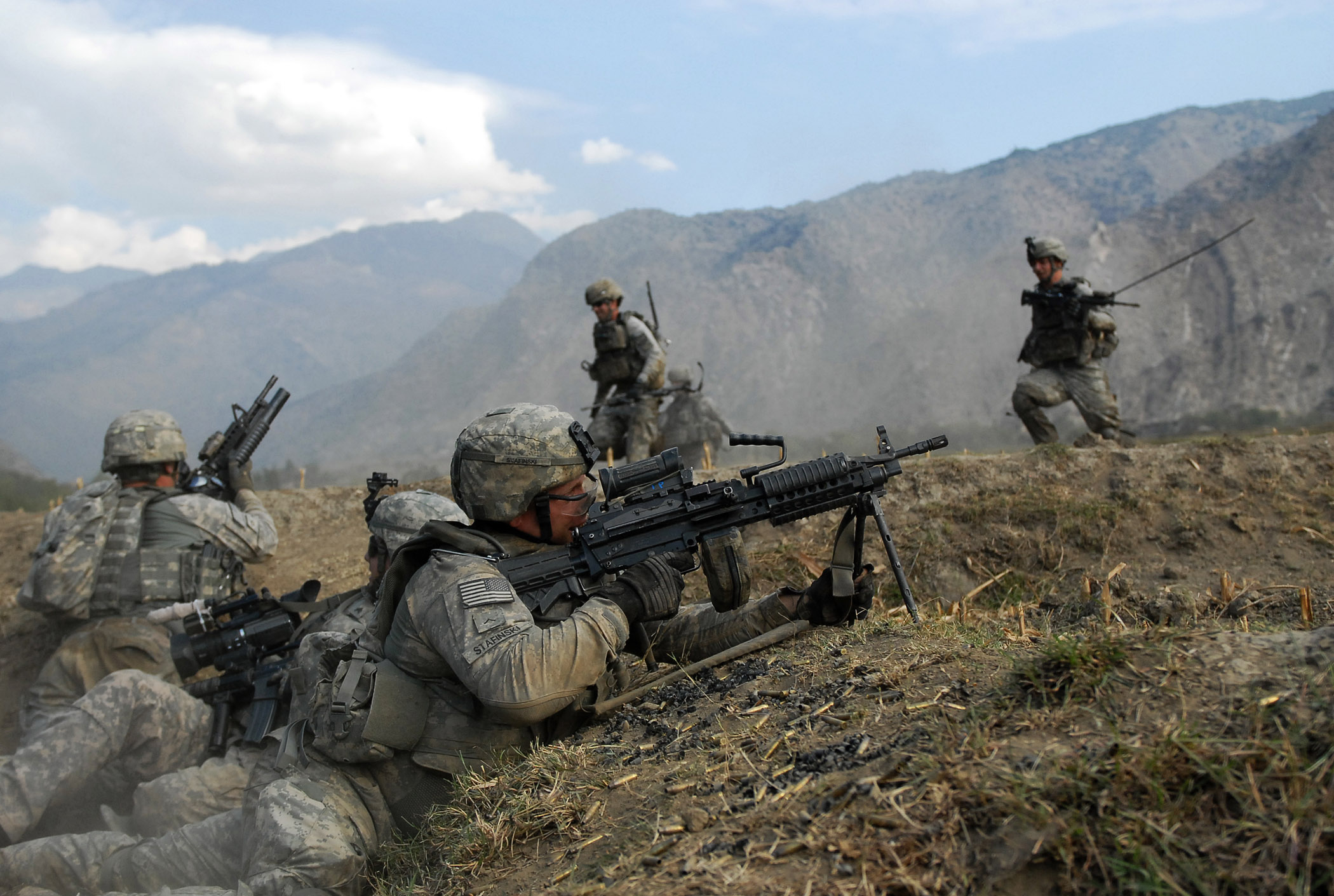 U.S. Army Soldiers from Company C, 2nd Battalion, 12th Infantry Regiment, watch the surrounding hills for insurgents, while fellow Co. C Soldiers race to their position, dodging heavy sniper fire, during a three-hour gun battle with insurgent forces in Kunar province, Afghanistan's Waterpur valley, Nov. 3. The 4th Infantry Division Soldiers have been battling insurgent forces in the Waterpur valley since arriving in Afghanistan last June. 5th Mobile Public Affairs Detachment Photo by Sgt. Matthew Moeller Date: 11.03.2009 Location: KUNAR PROVINCE, AF Related Photos